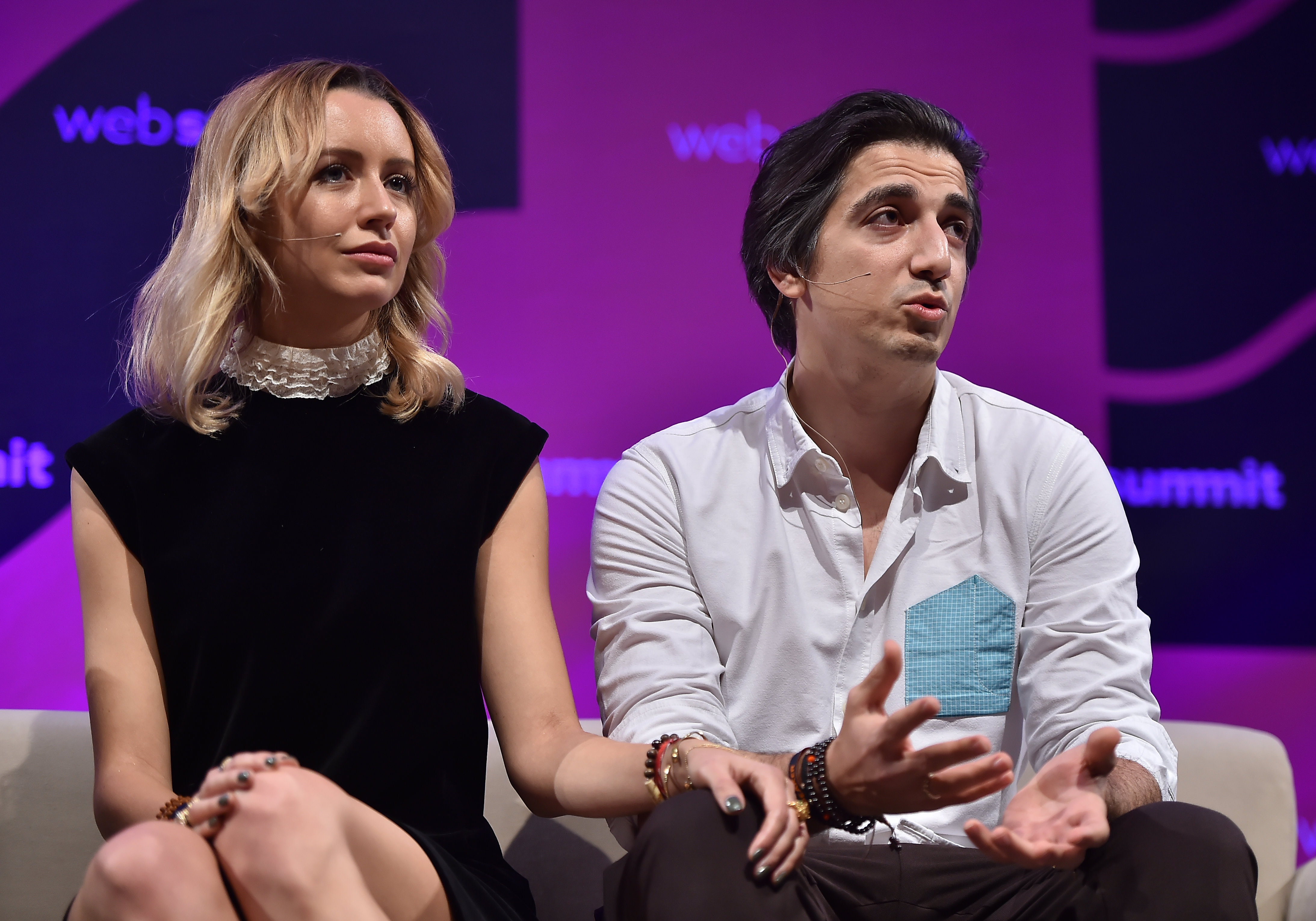 7 November 2017; Nataly Osmann and Murad Osmann, Executive Producers, Instagram Stars, on the PandaConf Stage during the opening day of Web Summit 2017 at Altice Arena in Lisbon. Photo by Seb Daly/Web Summit via Sportsfile